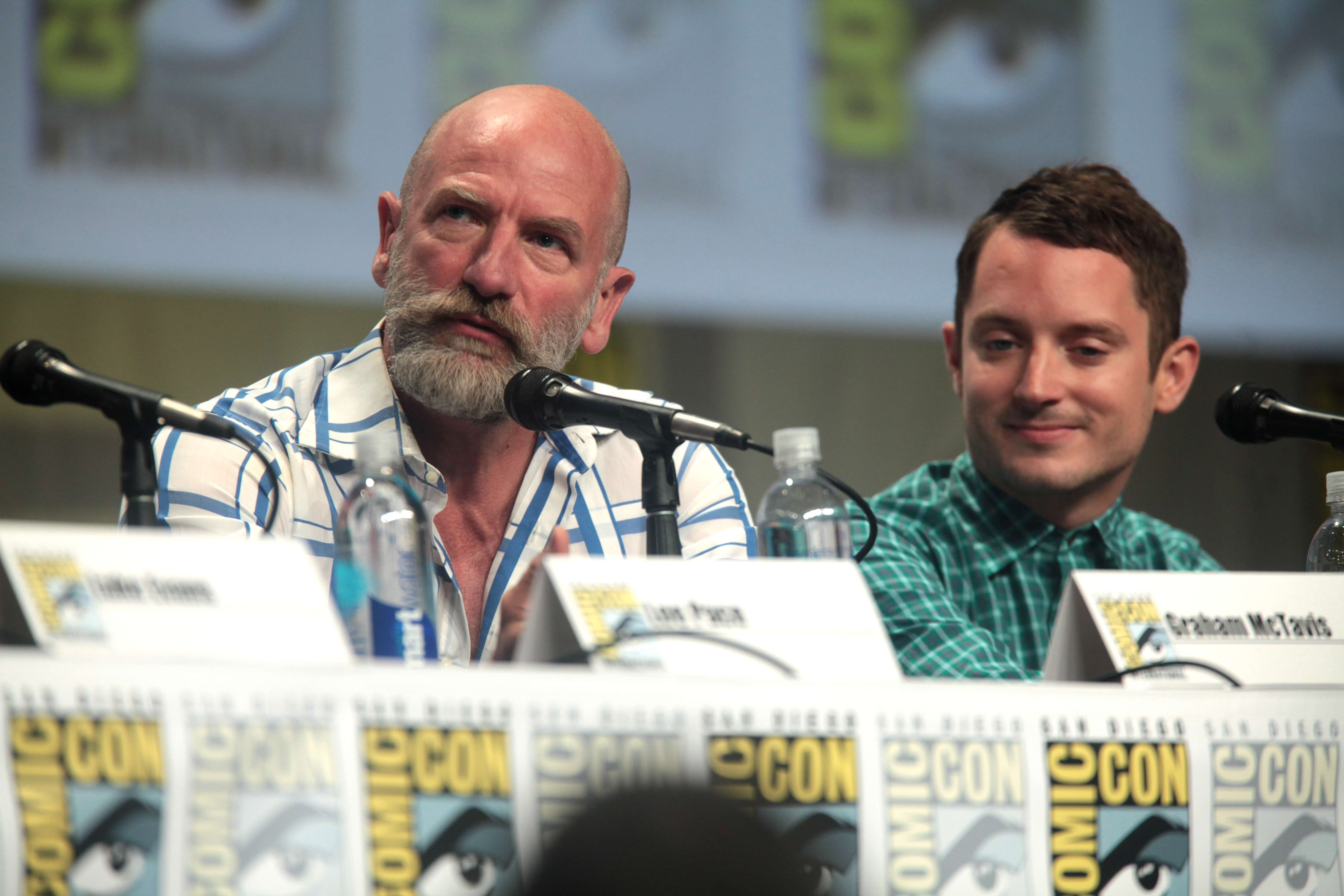 Graham McTavish and Elijah Wood speaking at the 2014 San Diego Comic Con International, for "The Hobbit: The Battle of Five Armies", at the San Diego Convention Center in San Diego, California.